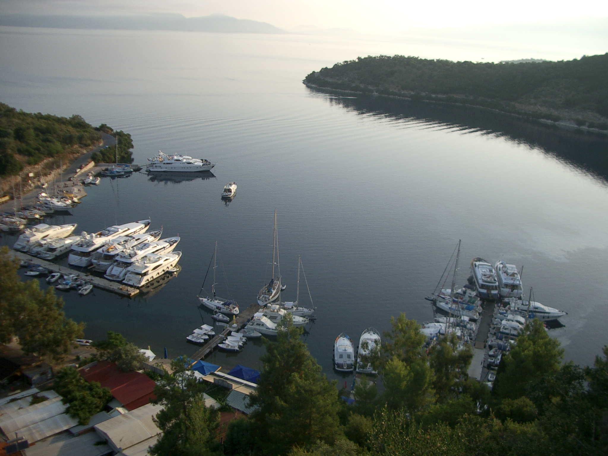 View from Spartochori, Meganisi, Ionian Islands, Greece